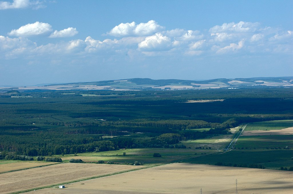 Záhorie lowland